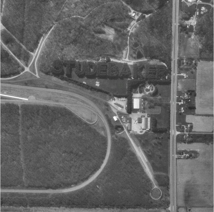 USGS Digital Ortho Layer in NASA WorldWind software showing the Studebaker tree grove at Bendix Woods, Indiana, USA. Image rotated 90 degrees (north is to the right of the image). Height of 1.1km